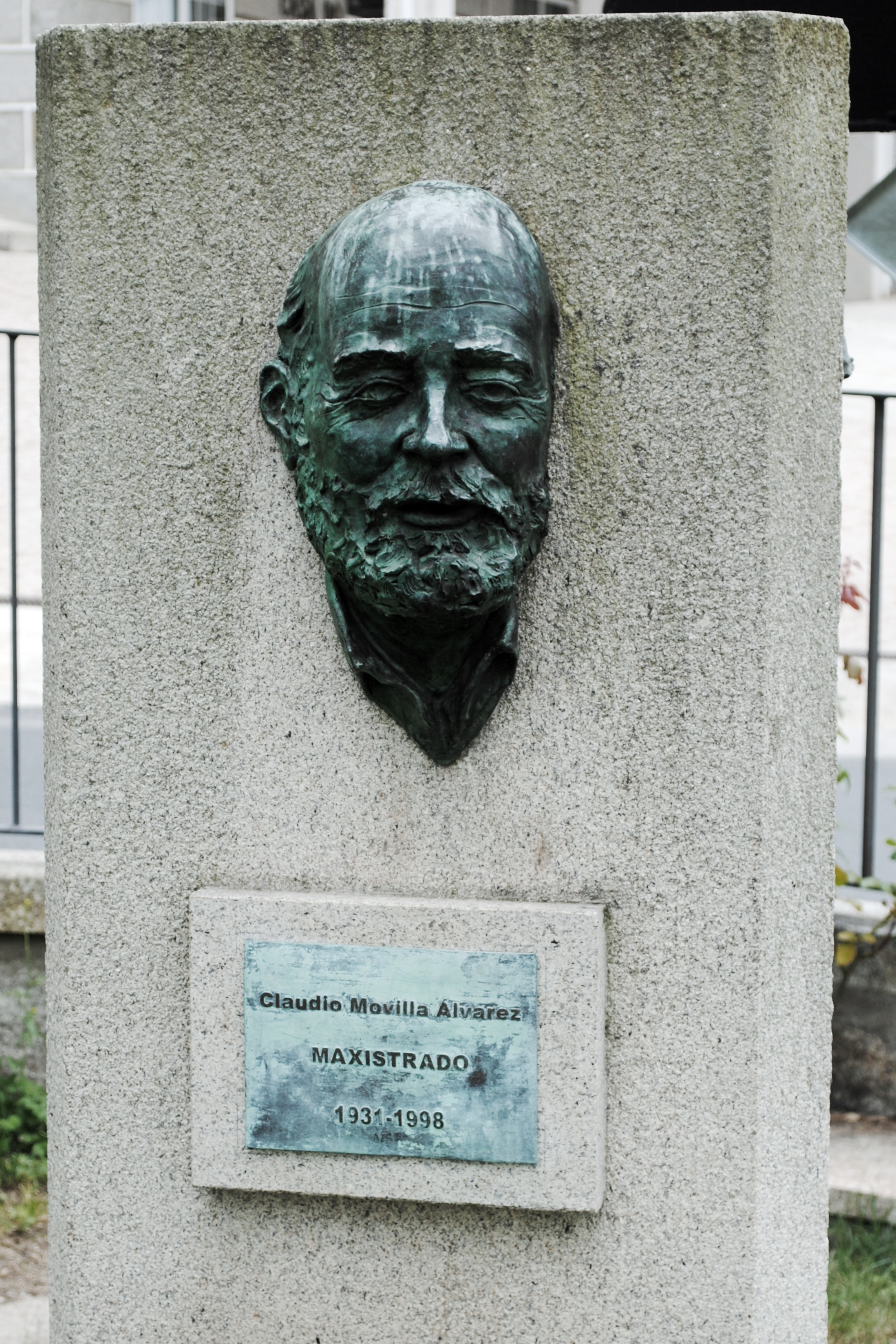 See title.